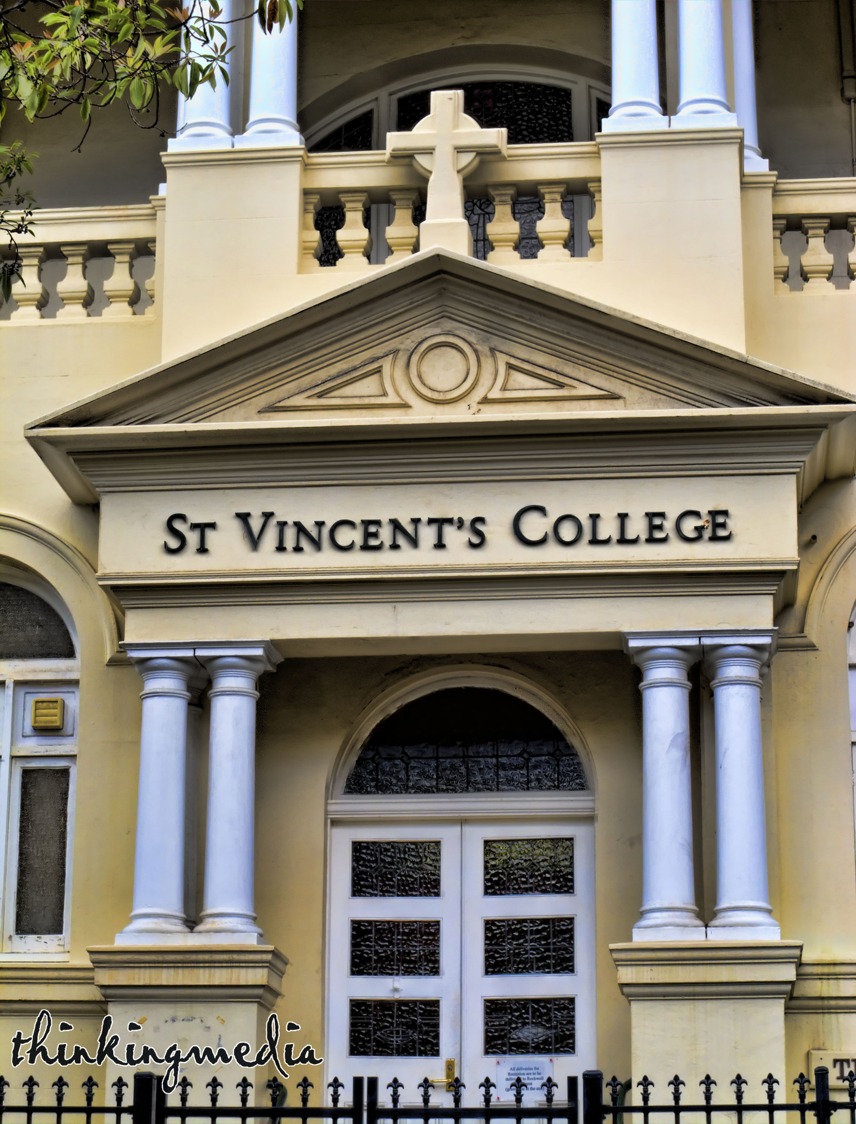 See where this picture was taken. [?] The original land grant for the site was given to John Busby and was known as Rockwall. On a smaller battleaxe subdivision behind Rockwall house lay another two storey villa called Tarmons, St Vincents College lies approximately on the site of the Tarmons subdivision. Tarmons was built in 1838 for Sir Maurice O'Connell, the Commander of the military forces of NSW, he lived in the property for 10 years until his death in 1848. Sir Charles Nicholson (a doctor of medicine and founding member and Chancellor of the University of Sydney) purchased the property in 1852 from O'Connell's son for 10 000 pounds. In 1855 Nicholson sold the property to the Sisters of Charity 'on generous purchasing terms' after hearing of their intentions for the site. The Sisters of Charity took possession of Tarmons in 1856 and St Vincent's Hospital opened in 1858 along with St Vincent's School, which was housed in a new building designed by William Munro. The school was later expanded to include a secondary school as the student population increased and another new adjoining building was constructed in 1863, the design has been attributed to Mortimer Lewis. The hospital eventually moved to Darlinghurst in 1870 and in 1871 the school was given the name St Vincent's High School, which later changed to St Vincent's (Ladies) College in 1882 and has expanded steadily ever since . The College is the oldest registered girls school in the Commonwealth.